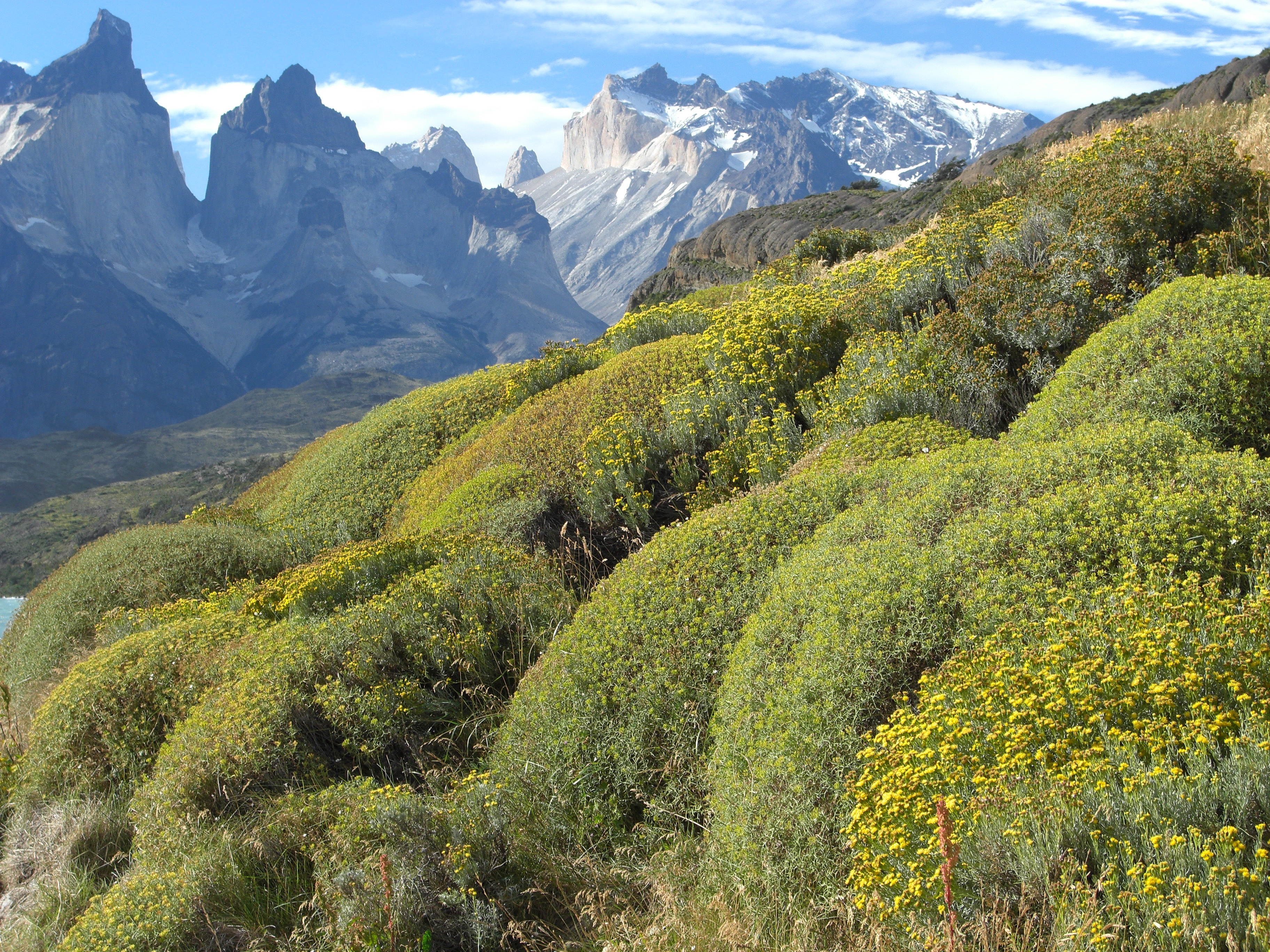 It is characterized by these cool cushion-shaped shrubs adapted to heavy dry winds, particularly Mulinum spinosum (the yellow-fruited thing taking up most of this photo.